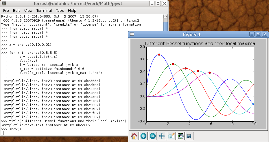 An example plotting Bessel functions and finding their local maxima.